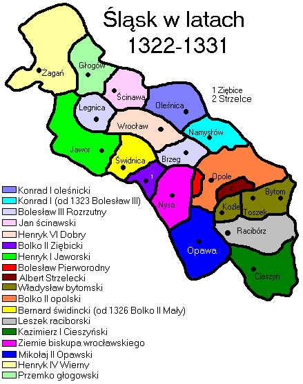 Duchies in Silesia 1322-1331